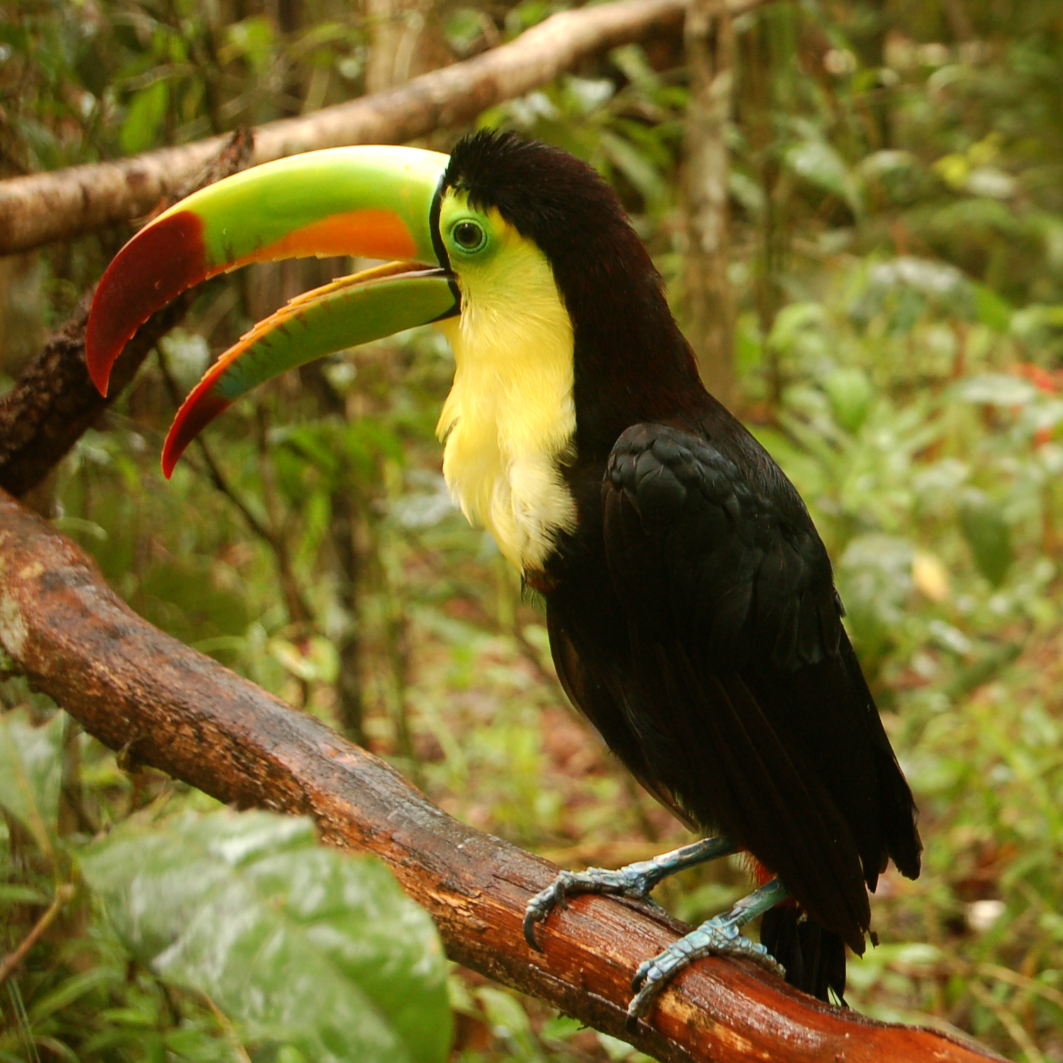 Keel-billed Toucan (also known as Sulfur-breasted Toucan and Rainbow-billed Toucan) at Belize Zoo, Belize. Belize Zoo keep over 125 animals all native to Belize. The animals at Belize Zoo were either orphaned, born at the zoo, rehabilitated animals, or sent to The Belize Zoo as gifts from other zoological institutions.